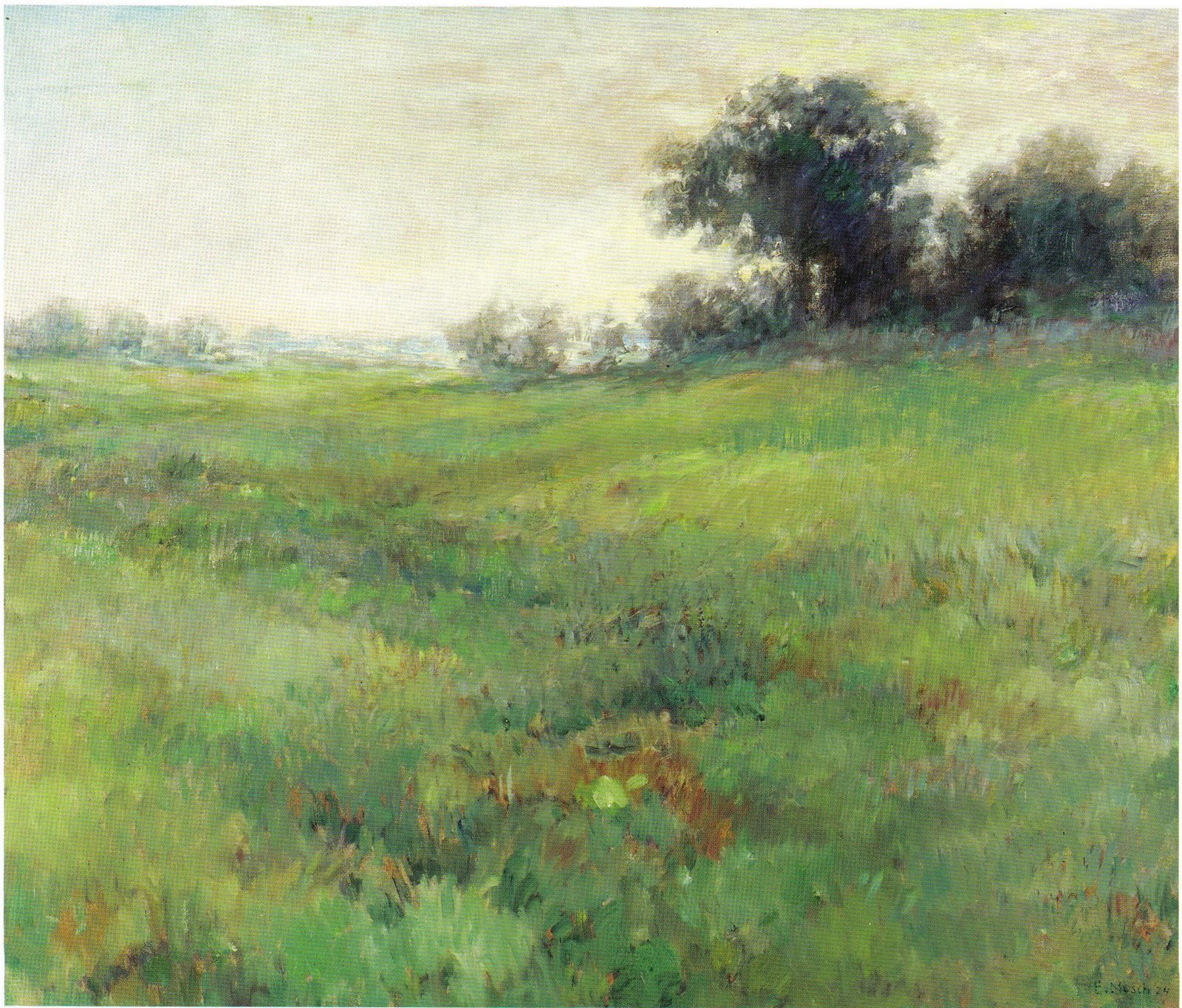 This is an oil painting on canvas, painted by Evert Musch (who was my father) in 1974, representing the valley of the Drentse Aa near Gasteren. The size of the original is 62 x 73 cm. The painting is in a private collection. The copyrights are owned by the Evert Musch heirs.